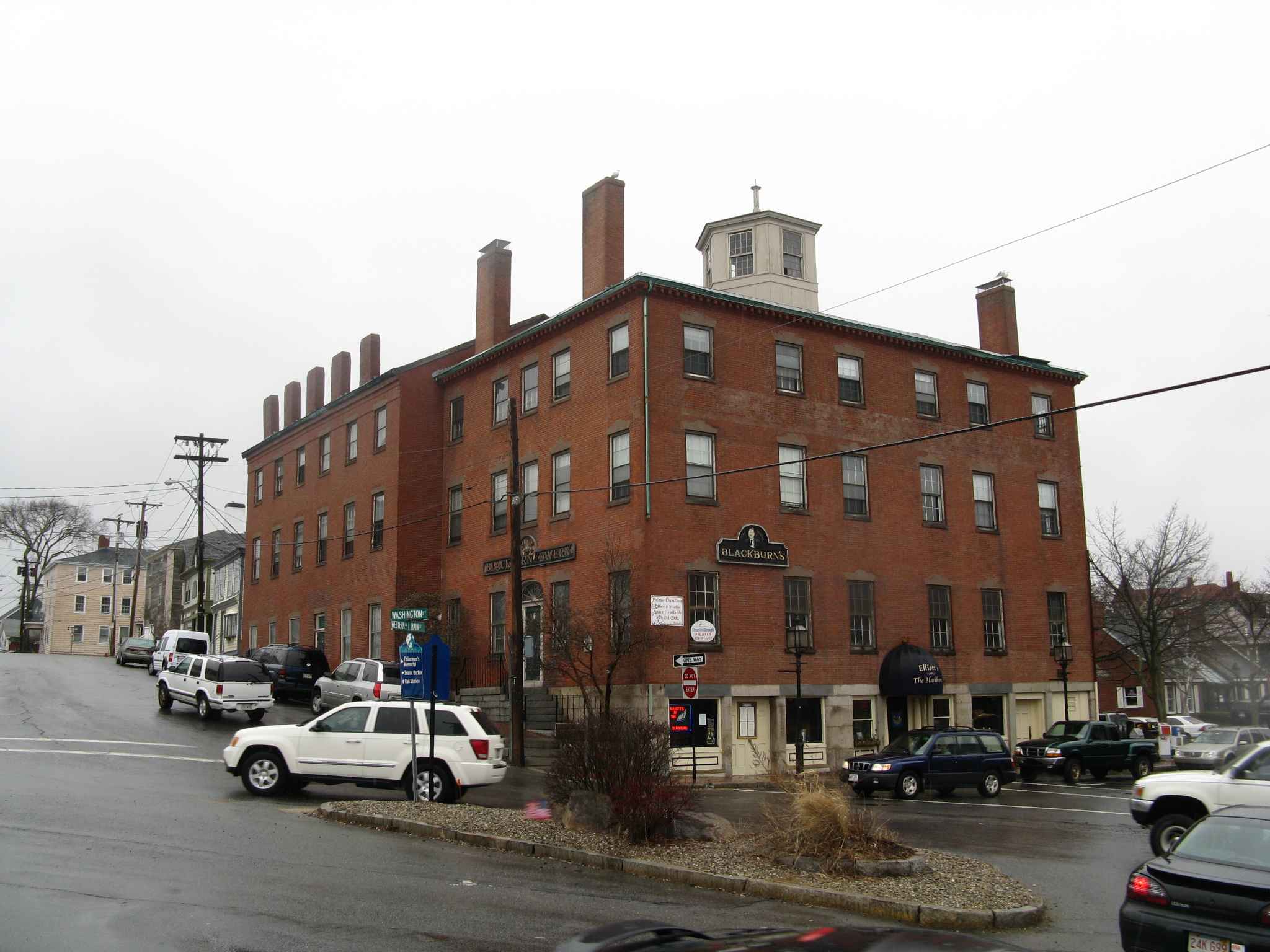 Blackburn Tavern (also known as Puritan House), 2 Main St, Gloucester Massachusetts